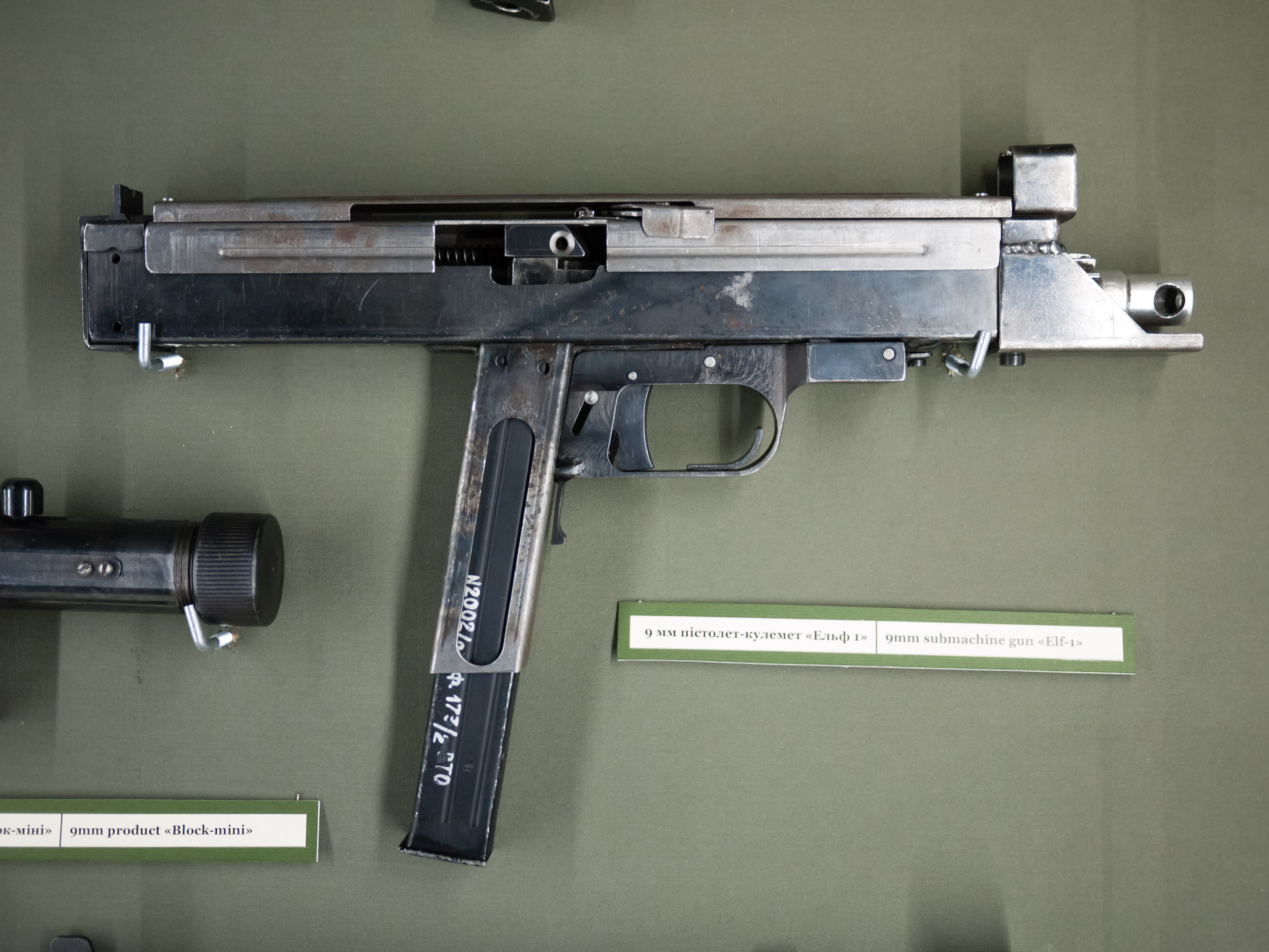 'Elf-1' 9mm submachine gun by Ihor Oleksiyenko, National Military-Historical Museum of Ukraine